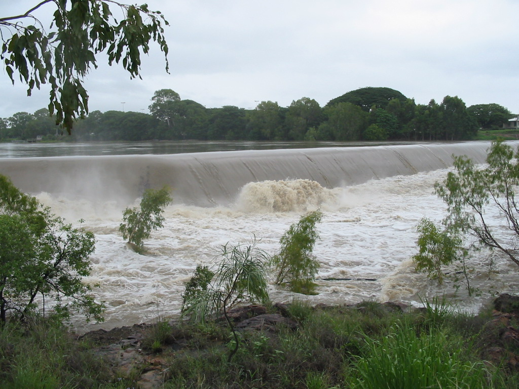 this is a photo of the Black Weir with 1.2mtrs of water flowing over it after the Feb 07 Rain.